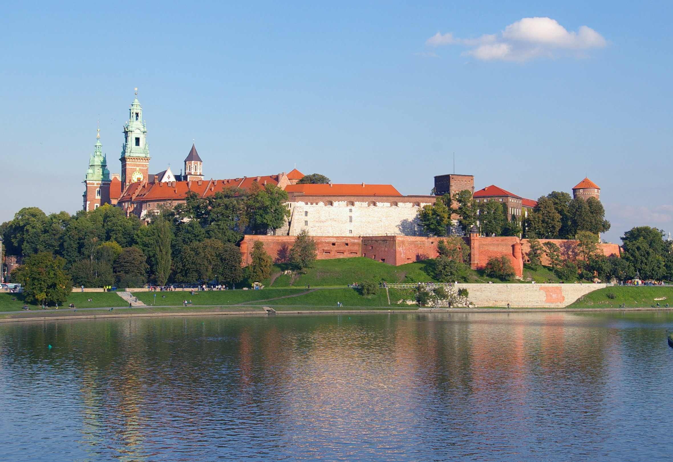 The Wawel Castle in Kraków